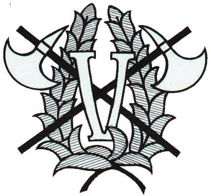 AHBVPA-Emblema01